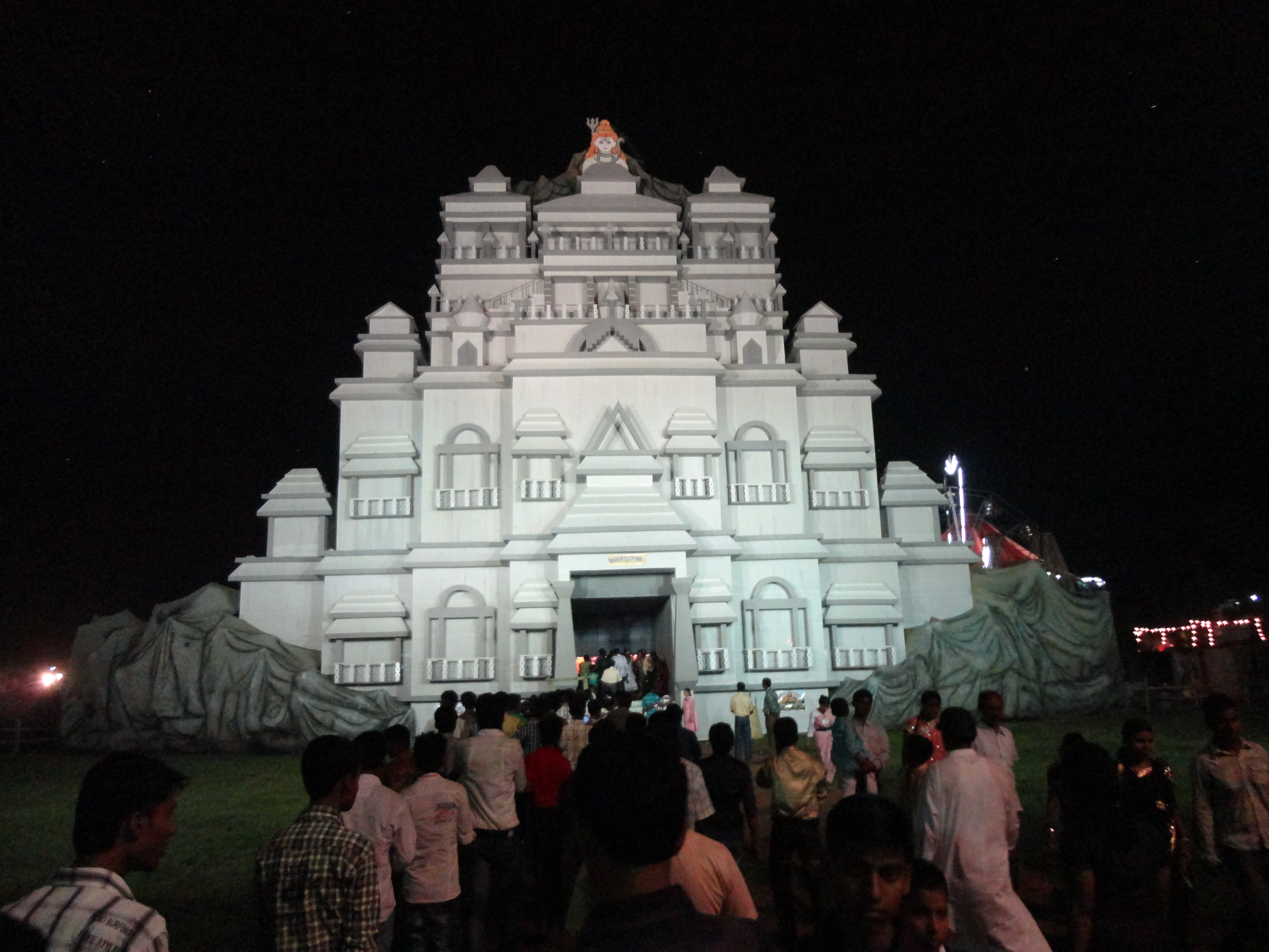 Durga puja pandal at Agartala(Scorpian ad )